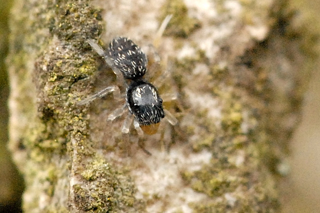 Neon reticulatus from Commanster, Belgian High Ardennes .